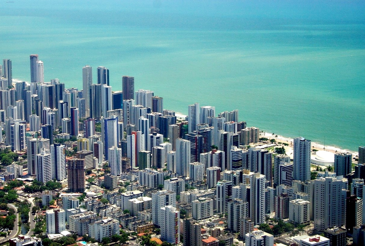 Aereal view of Recife - Pernambuco - Brazil